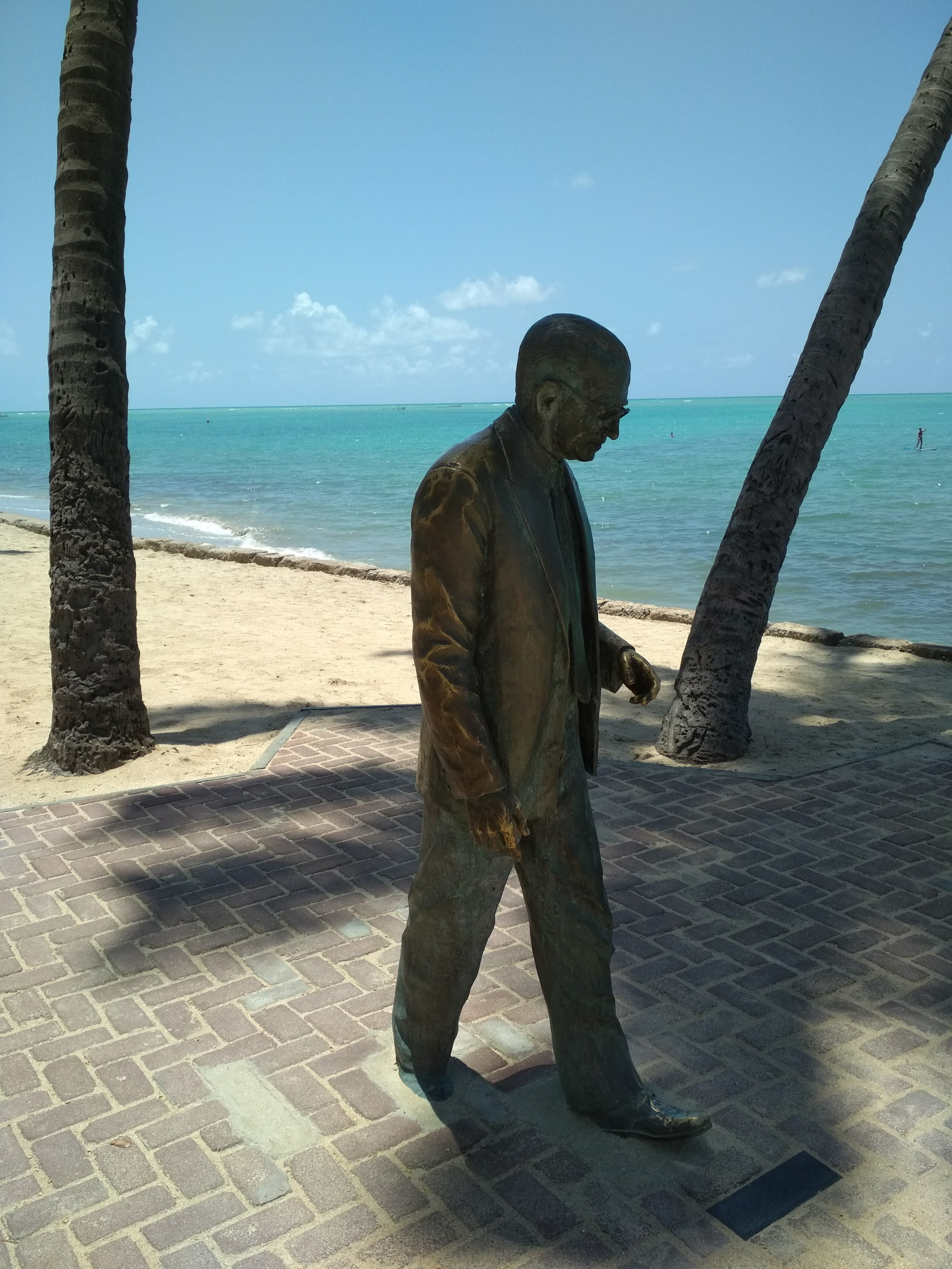 Graciliano Ramos statue at Ponta Verde beach, Maceió, Brazil